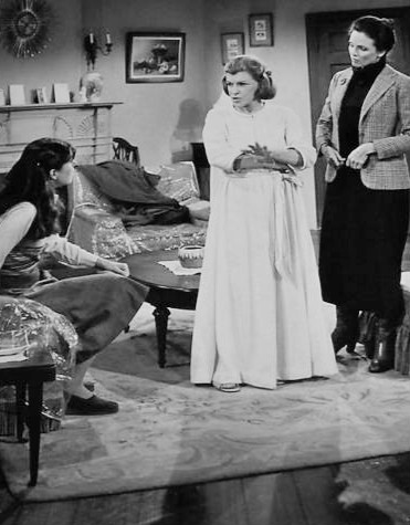 Publicity photo of Valerie Harper, Nancy Walker, and Julie Kavner from Rhoda.